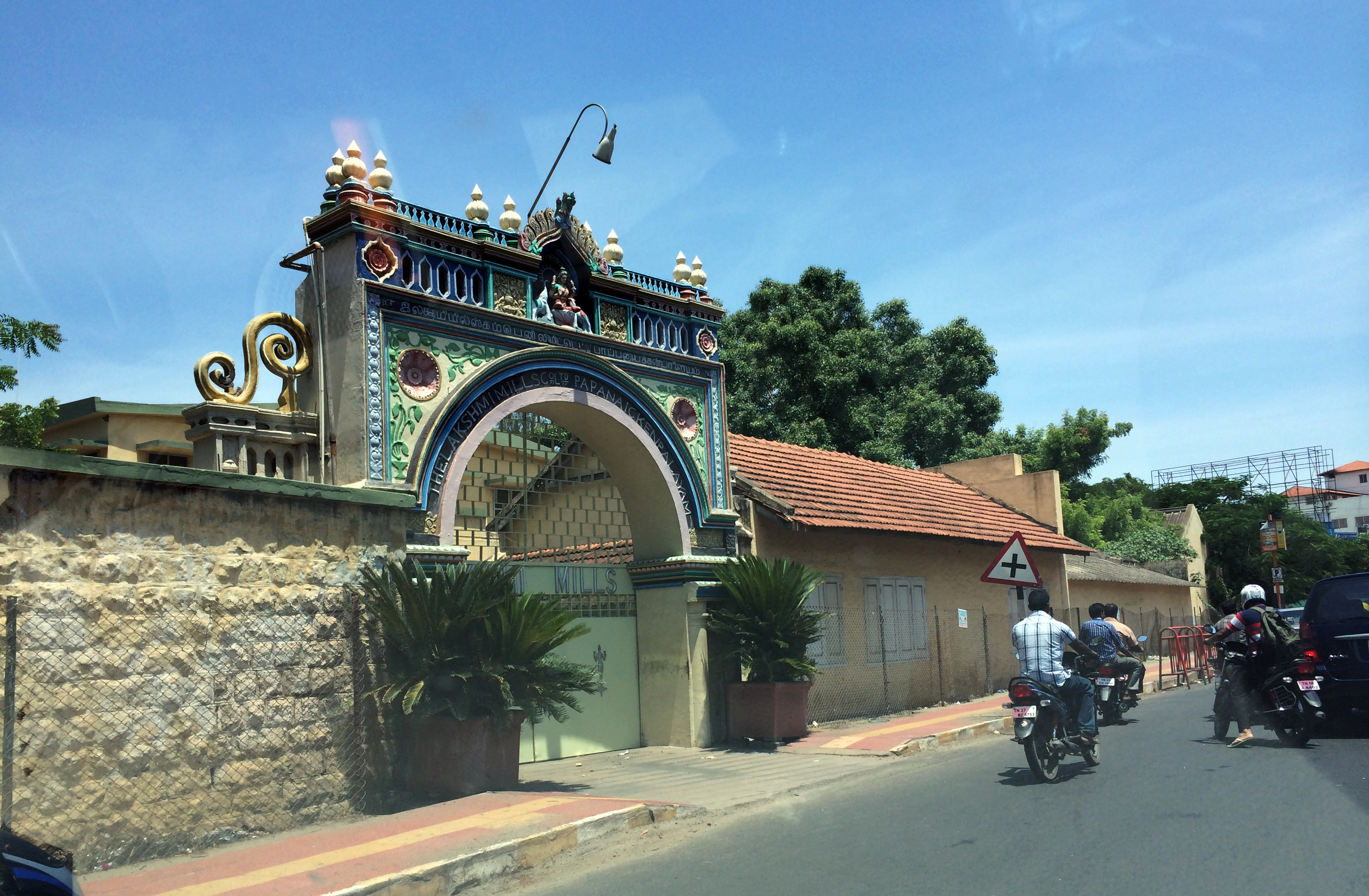 The Northern Gates of Lakshmi Mills gate overlooking Avinashi Road.